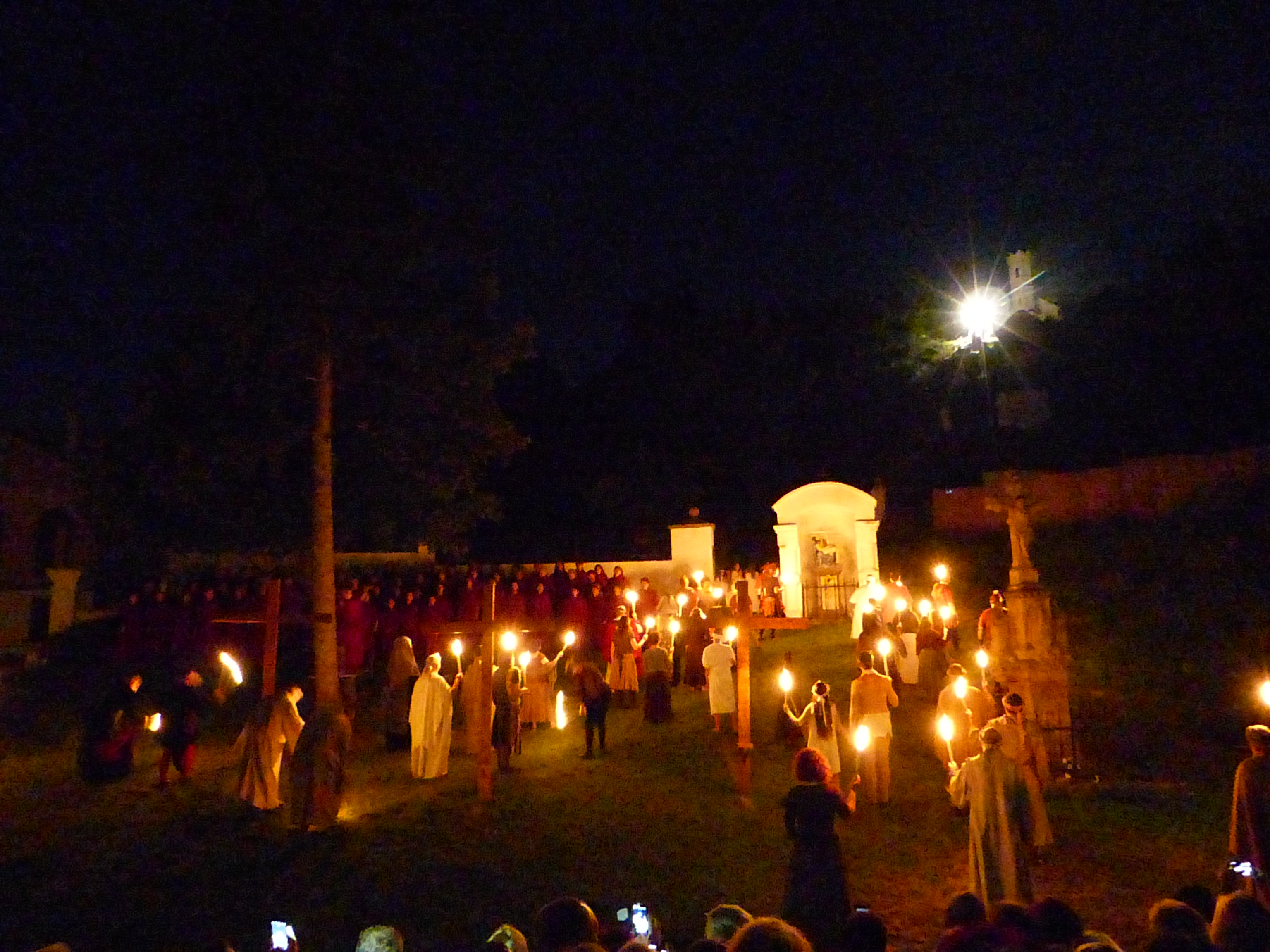 Ascension of Jesus Christ. Magyarpolány, on the 15ht of June, 2019.